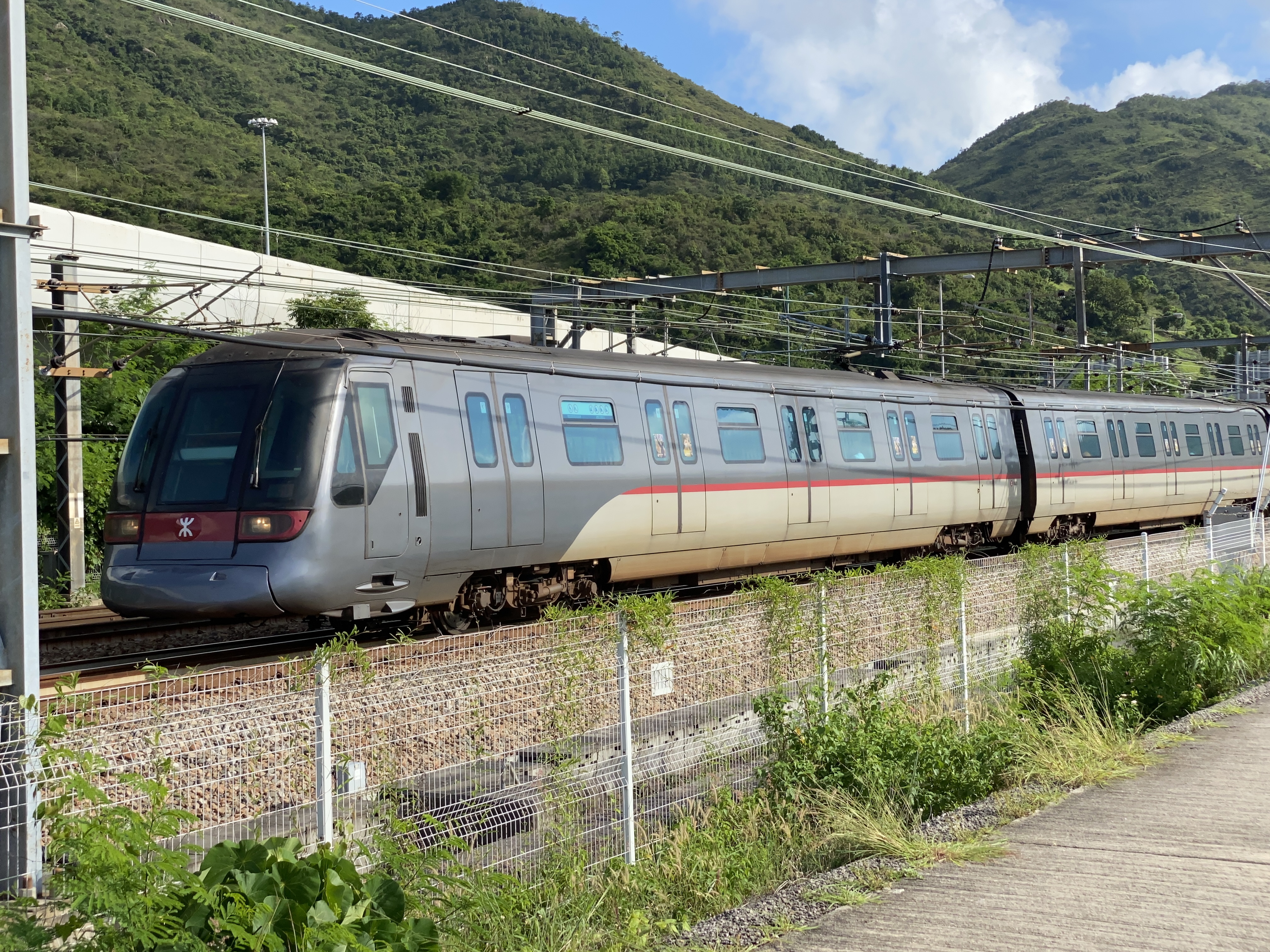 中文（香港）: This photo is taken in Sunny Bay.